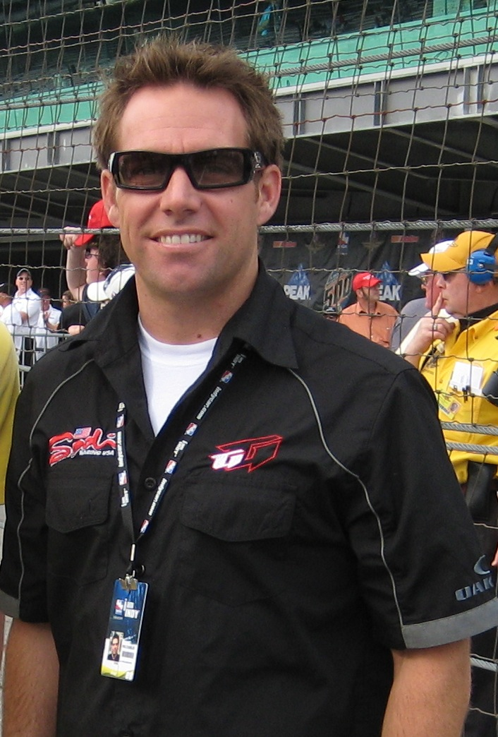 Phil Giebler at the Indianapolis Motor Speedway for Pole day qualifications for the 2008 Indianapolis 500.